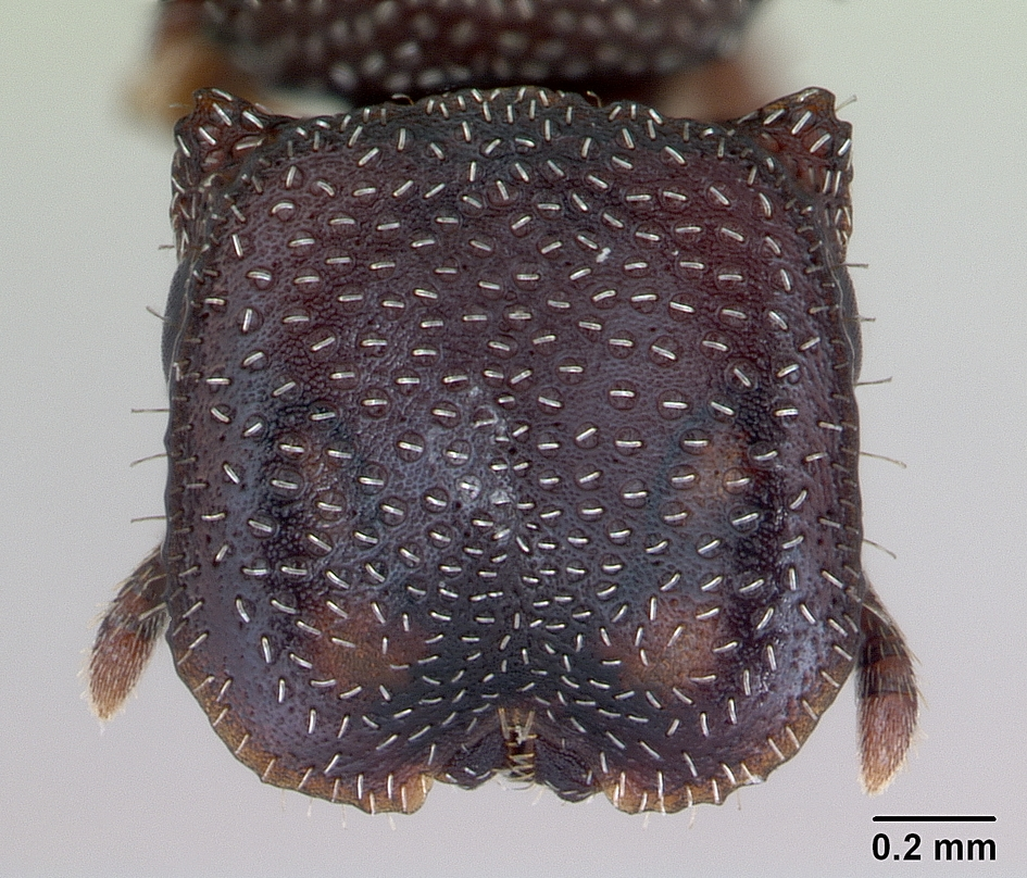 Head view of ant Cephalotes maculatus specimen casent0173689.